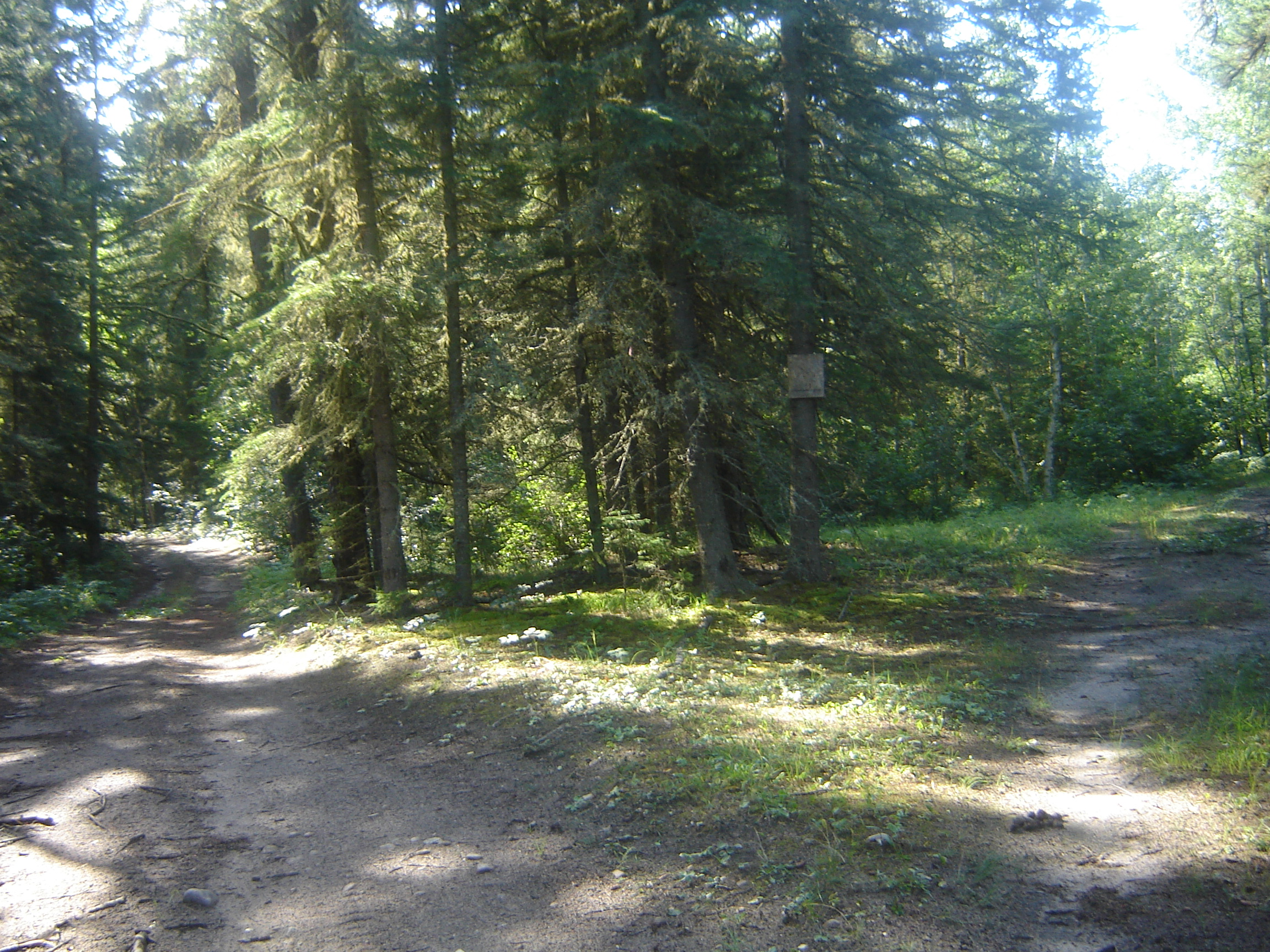 Flotten Lake in the Meadow Lake Provincial Park SAskatchewan